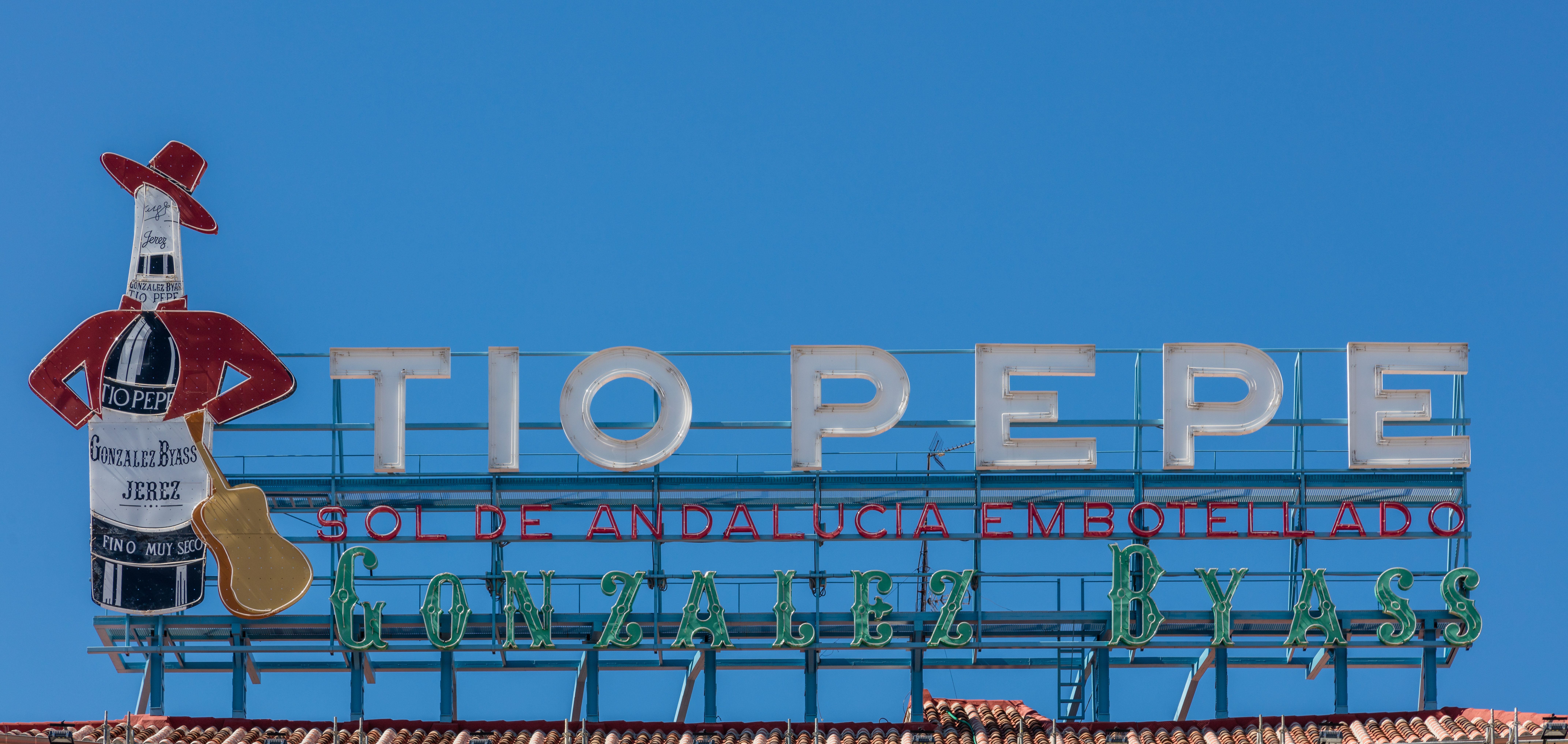 Tío Pepe advertisement, Sol Square, Madrid, Spain